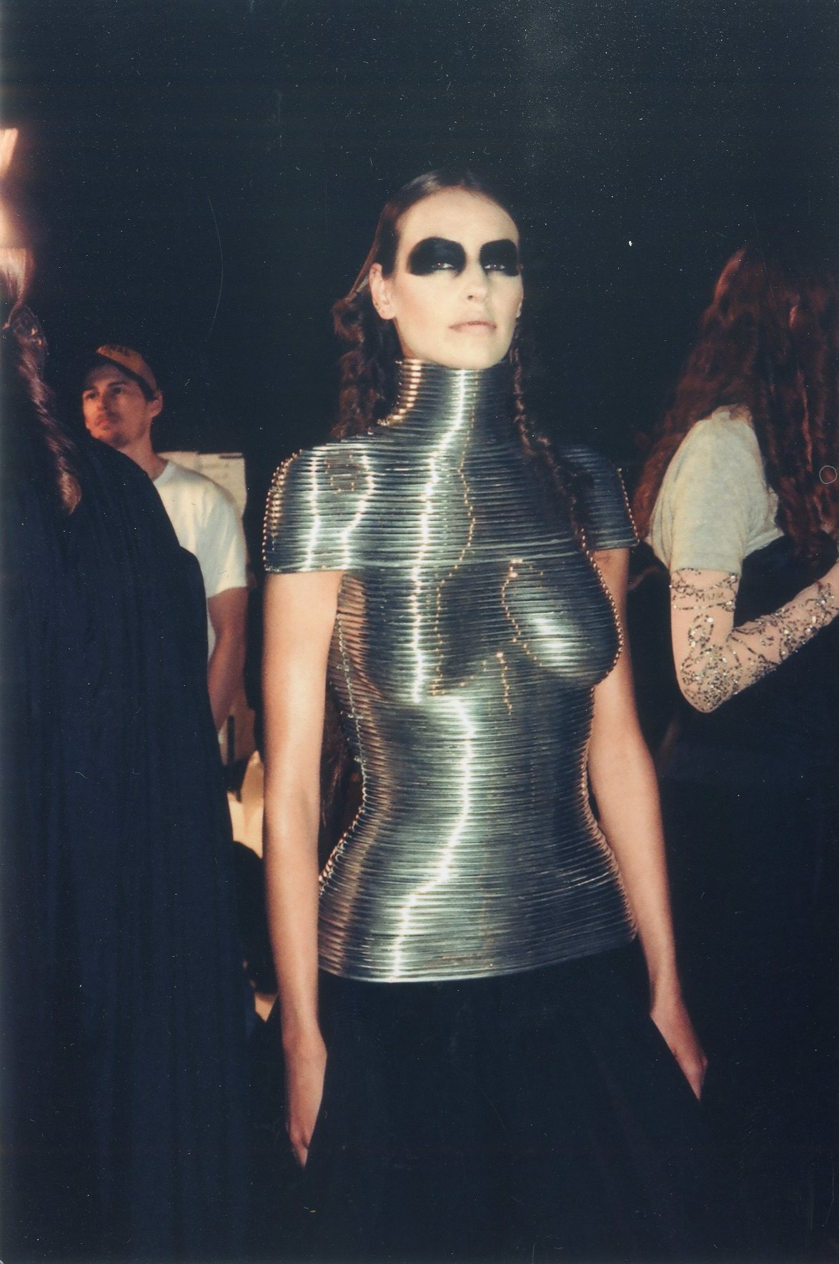 A 2004 photo of the Coiled Corset, a form-encasing bodice created from coils of aluminum by Shaun Leane for Alexander McQueen.